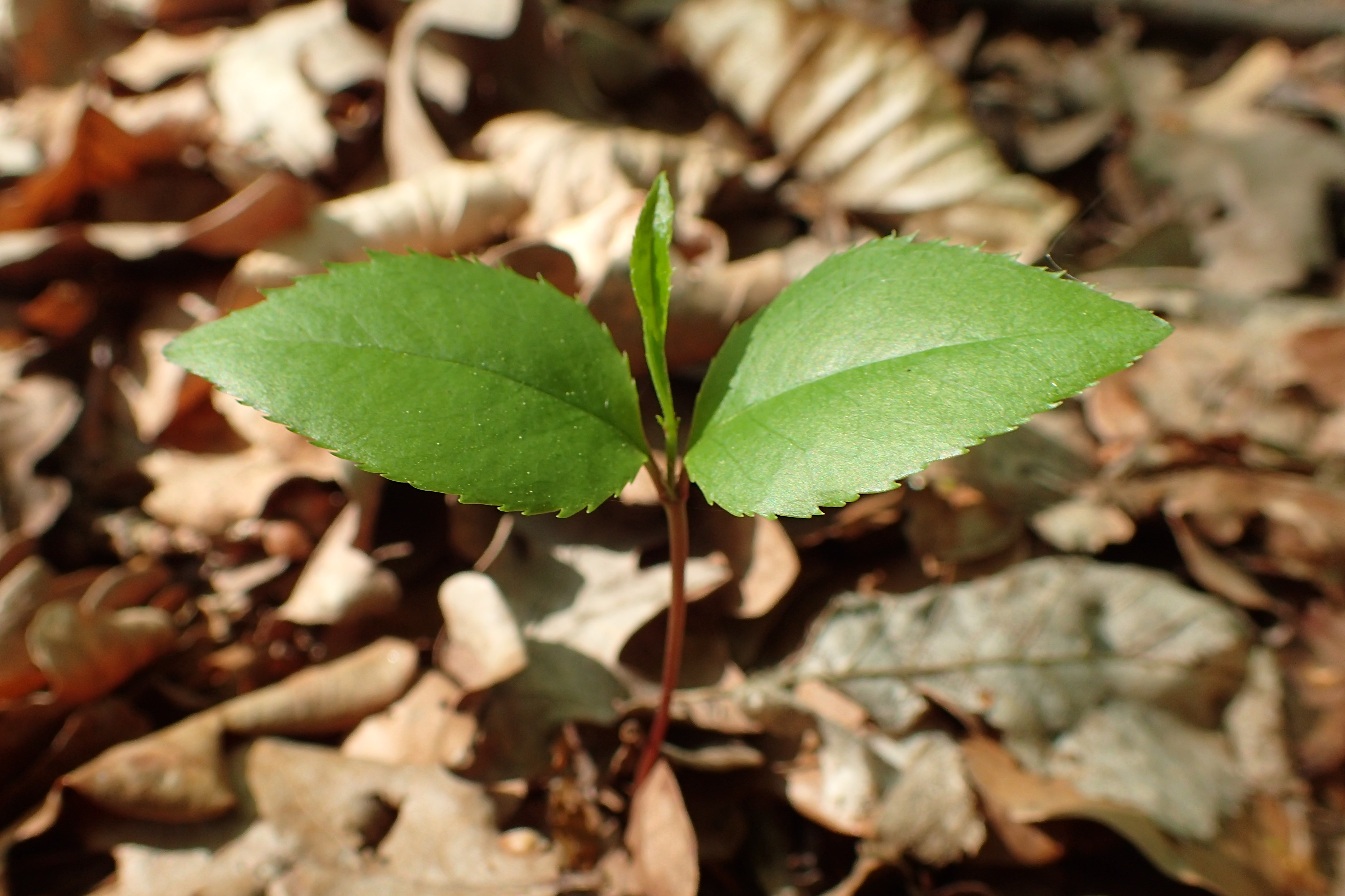 Prunus serotina seedling in forest in Szczecin Dąbie (NW Poland)